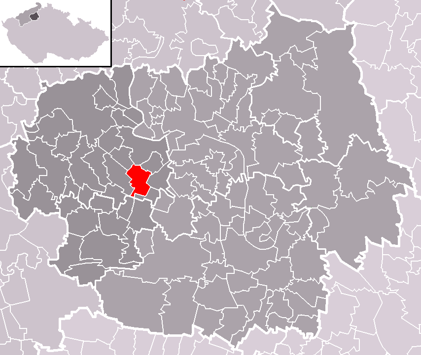 Location of Siřejovice municipality within Litoměřice District and administrative area of Lovosice as a Municipality with Extended Competence.